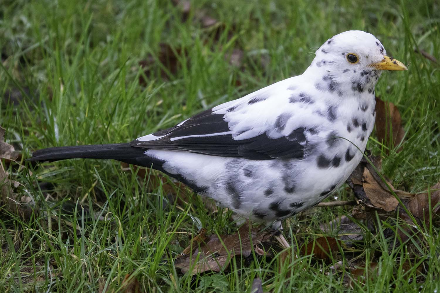 White Blackbird spotted at Portmeirion. RSPB terms this condition Partial Albinism.